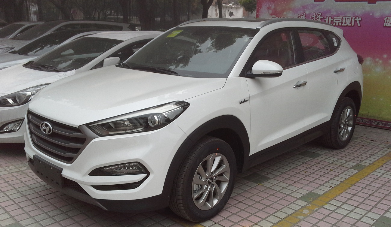 Hyundai Tucson TL photographed in Guangzhou, Guangdong province, China.